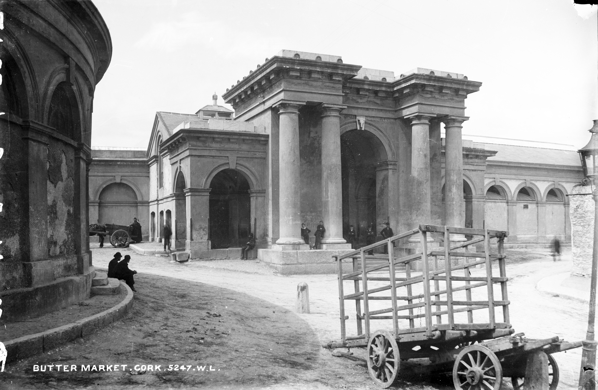 There seems to be lots of scrawls on the walls and pillars, but the only clear bit is "John Carroll" on the first pillar on the left! Date: 1900? NLI Ref.: L_CAB_05247